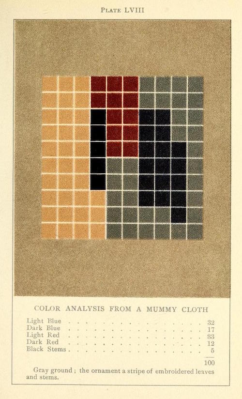 these wonderful 1902 colour charts are taken from Color problems: A practical manual for the lay student of color, a book by the American artist Emily Noyes Vanderpoel (1842-1939).